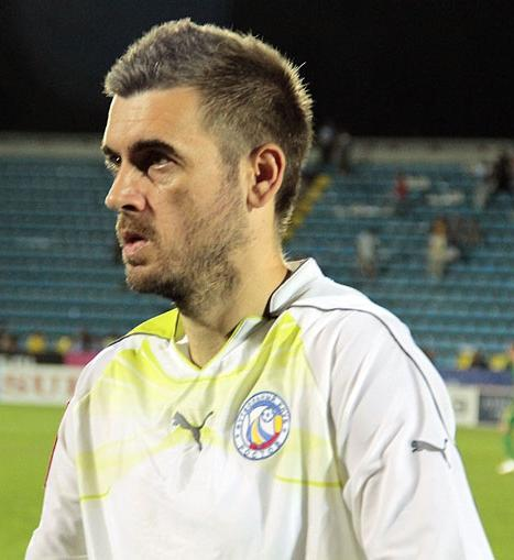 Stipe Pletikosa with FC Rostov.